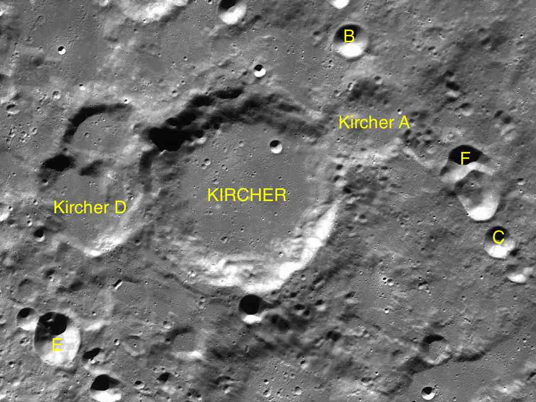 Part of the chart LAC-136 used for the presentation